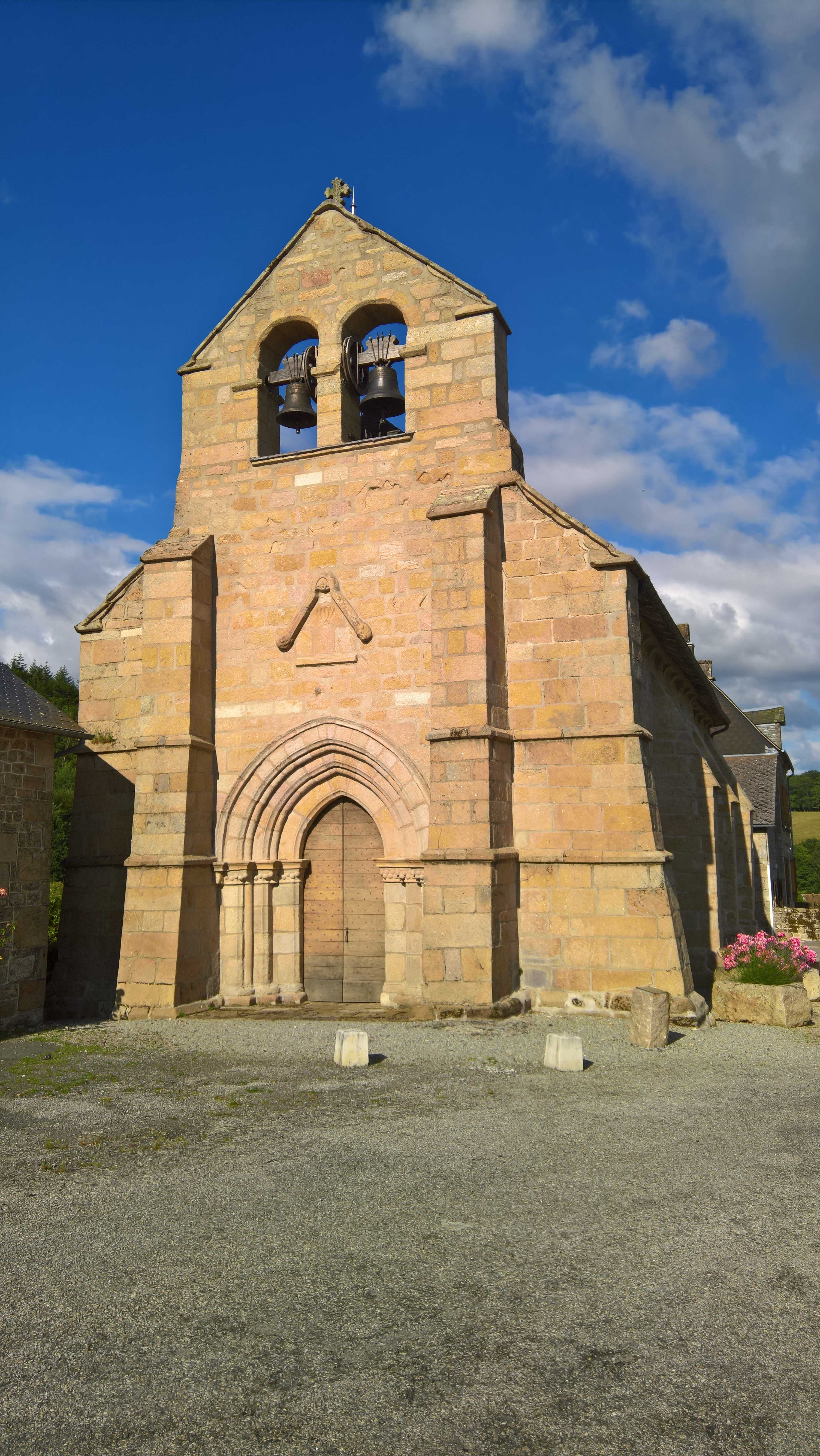 Old church of Saint-Martin in Viam